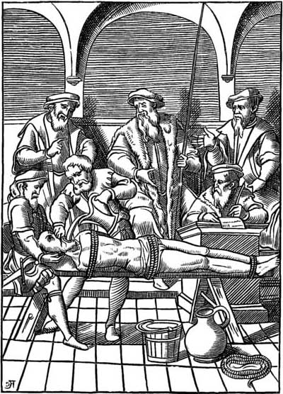 "The Water Torture.— Facsimile of a Woodcut in J. Damhoudère's Praxis Rerum Criminalium: in 4to, Antwerp, 1556." - Used to illustrate